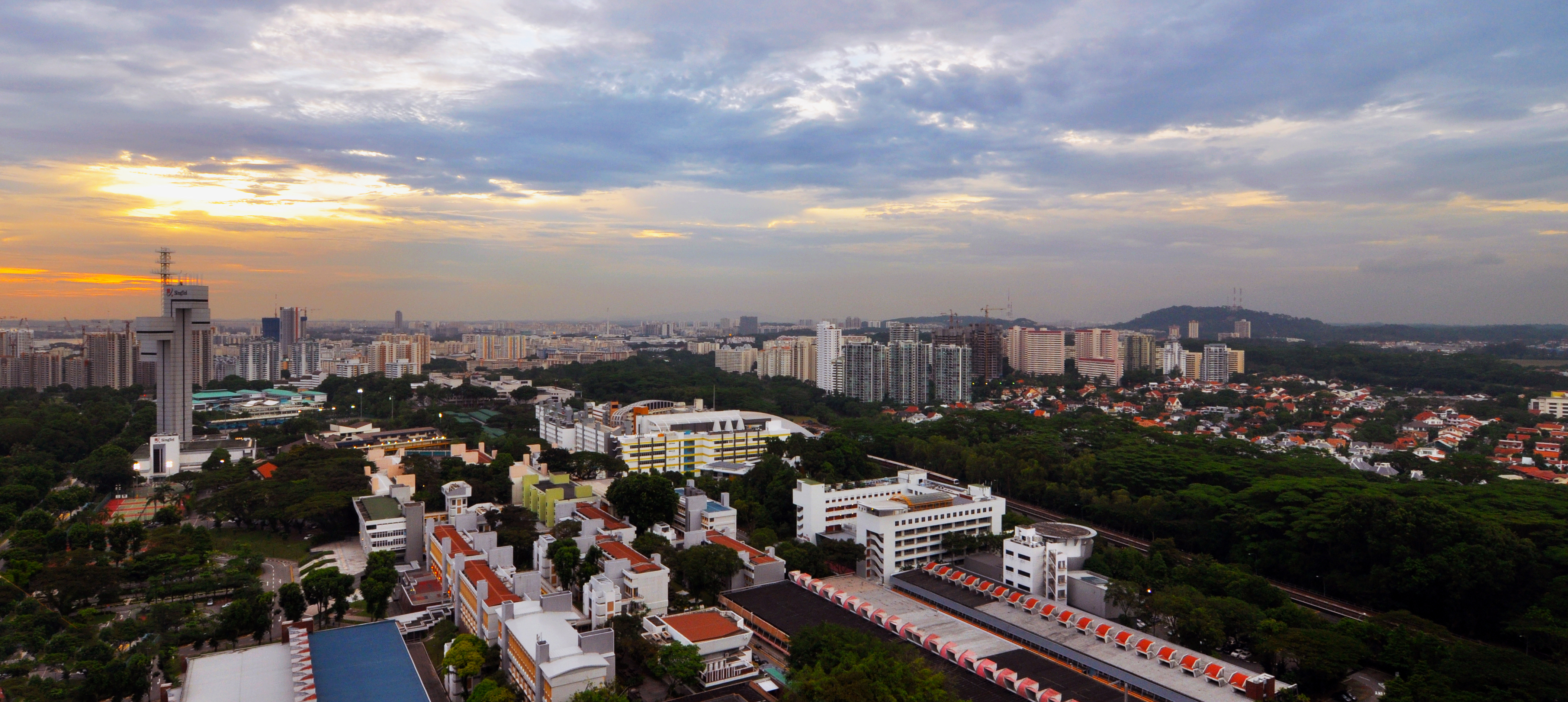 An aerial panorama of Singapore Polytechnic at sunset.